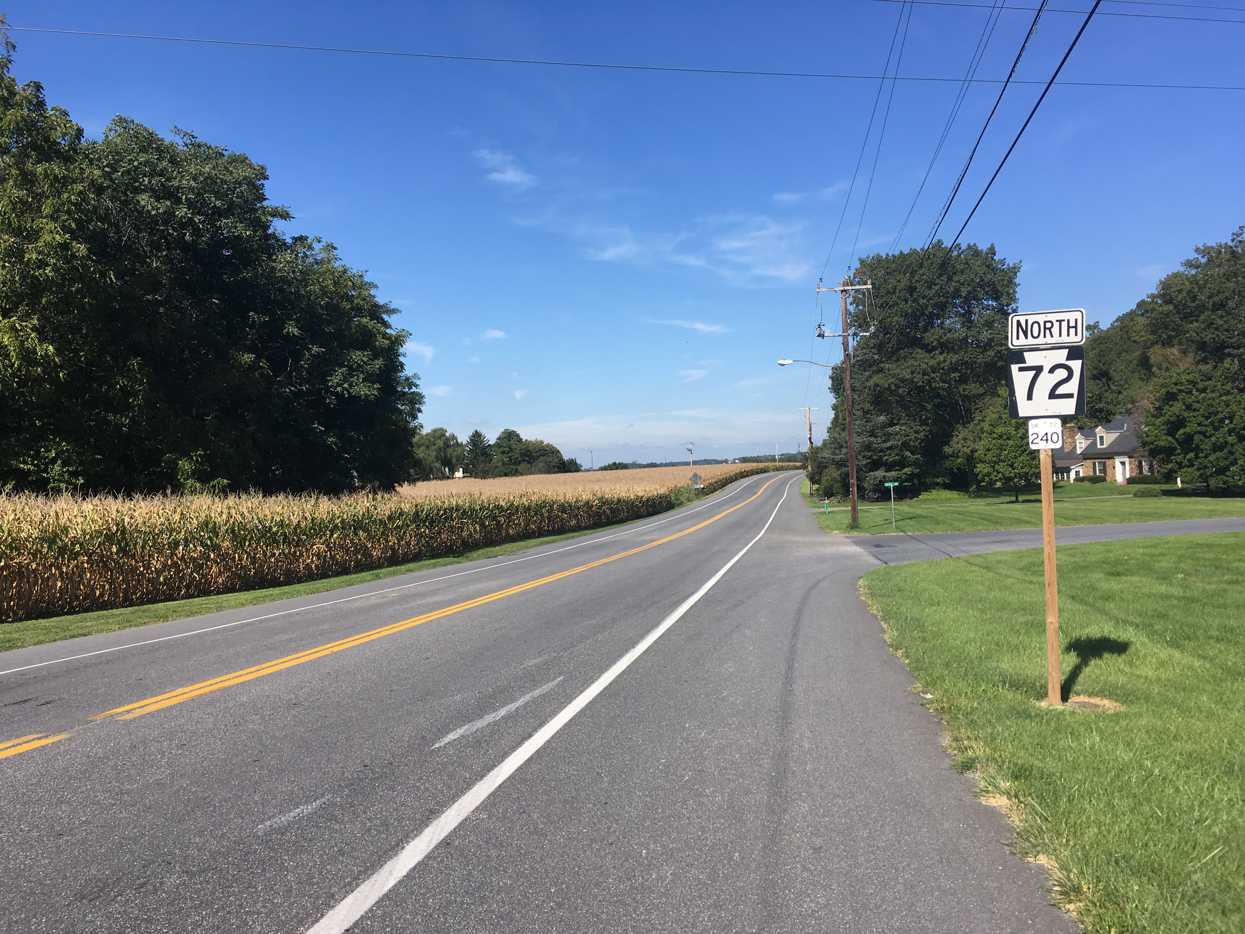 Northbound Pennsylvania Route 72 (Lancaster Road) past the intersection with Lititz Road in East Hempfield Township, Pennsylvania